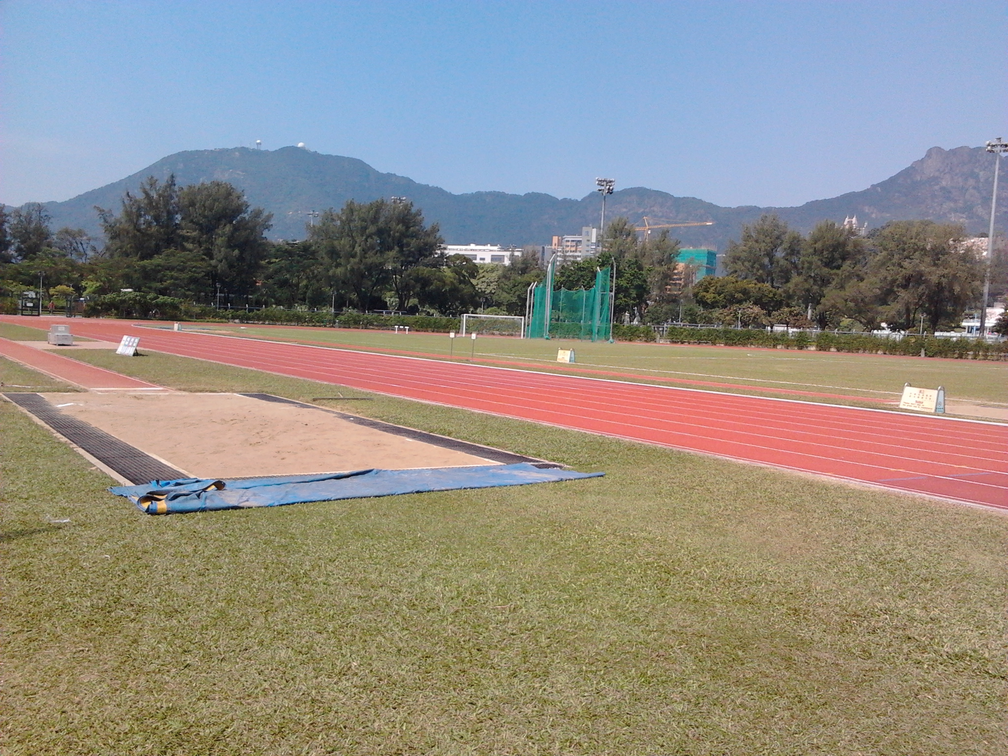 HK KowloonTsaiSportsGround2